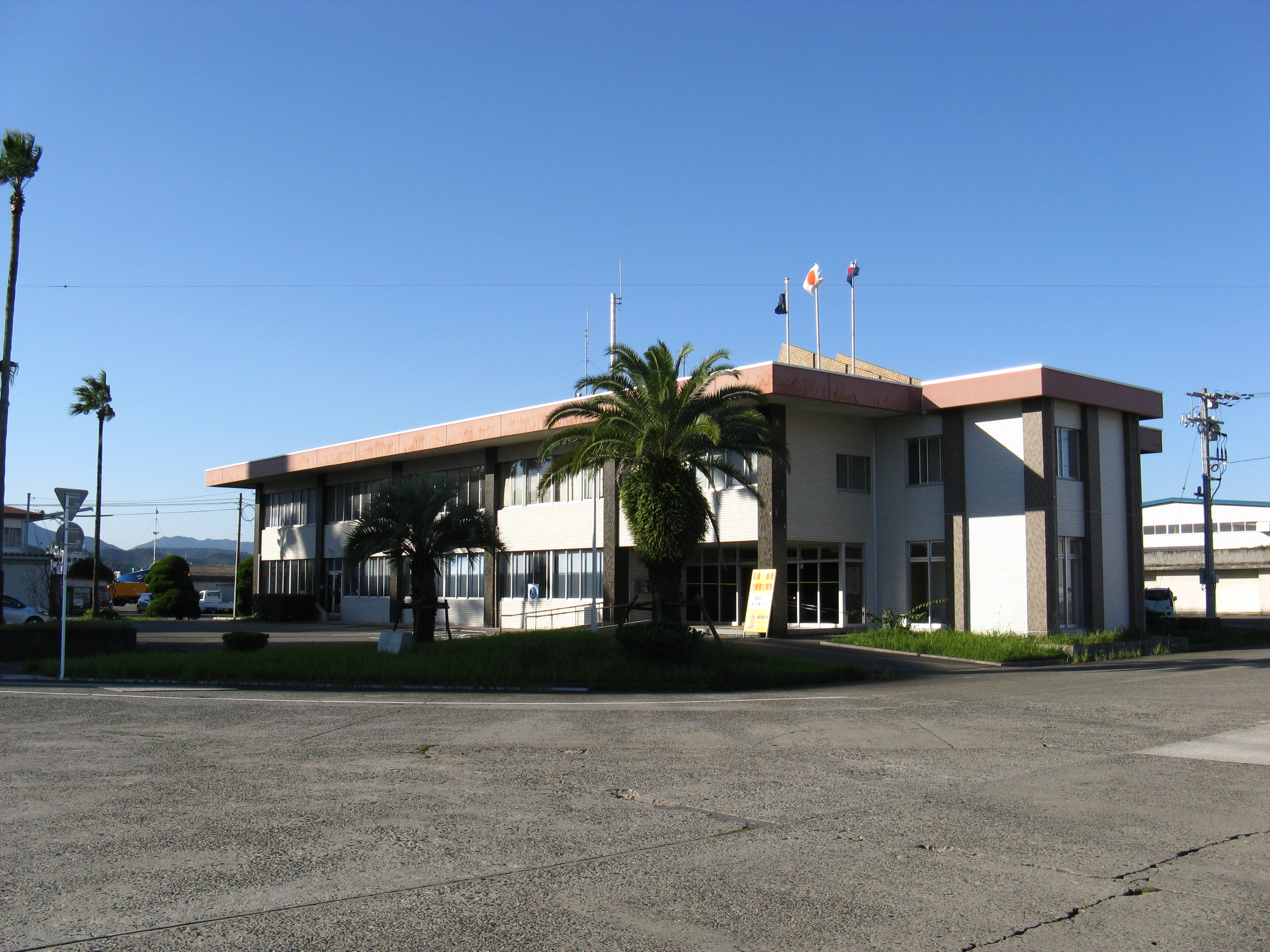 Hososhima port joint government building.